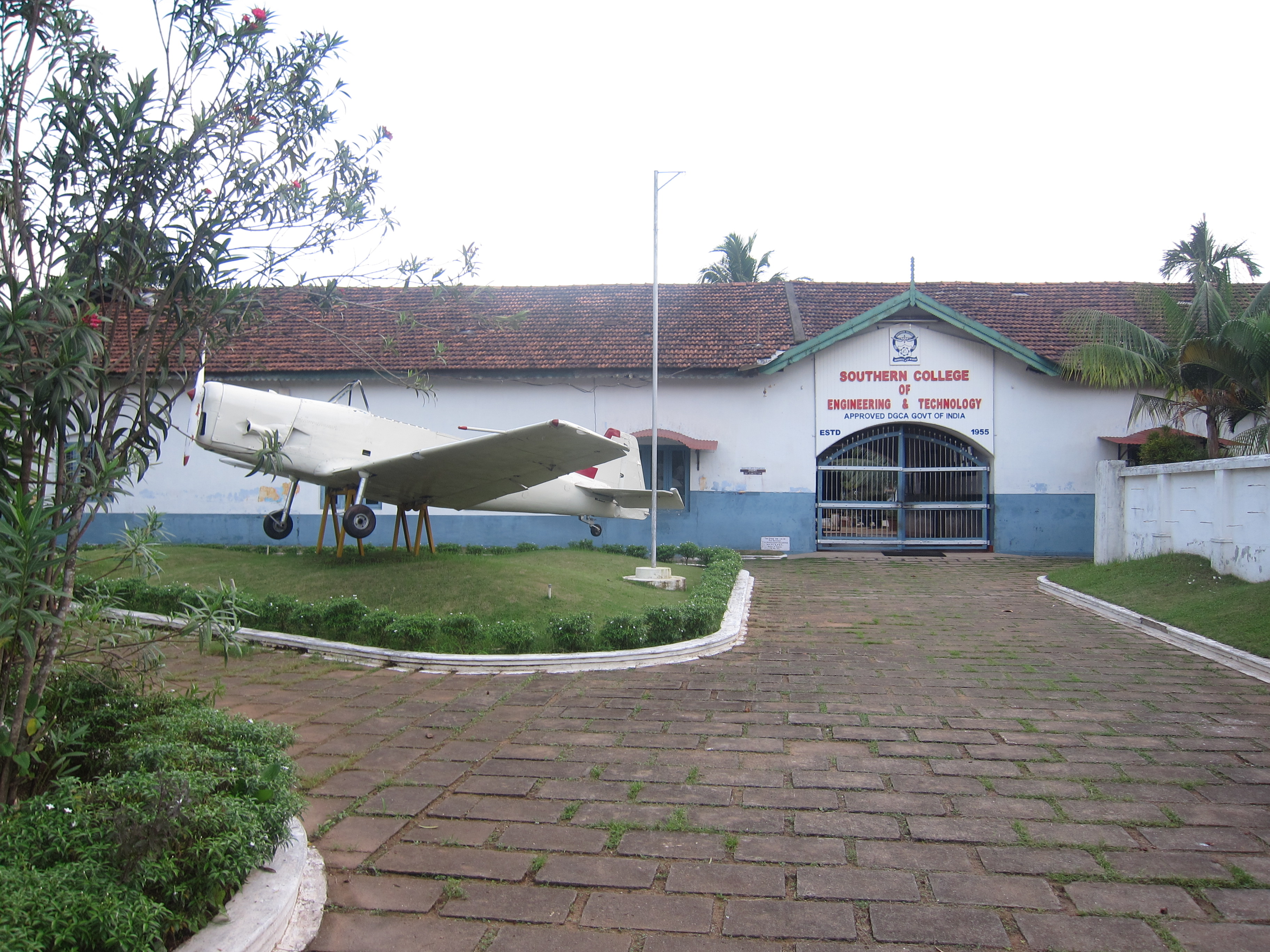 Southern College of Engineering and Technology - Aircraft Maintenance Engineering Southern Institute of Science and Management Studies Chalakudy സതേൺ കോളേജ് എന്നറിയപ്പെടുന്ന ഈ സ്ഥാപനത്തിൽ വിദേശികളൊക്കെ (ആഫ്രിക്കയിൽ നിന്ന്) വന്ന് പഠിക്കുന്നുണ്ടായിരുന്നു... ഇപ്പോൾ കാണുന്നില്ല... 1955-ൽ തുടങ്ങിയ സ്വകാര്യ സ്ഥാപനമാണ്...